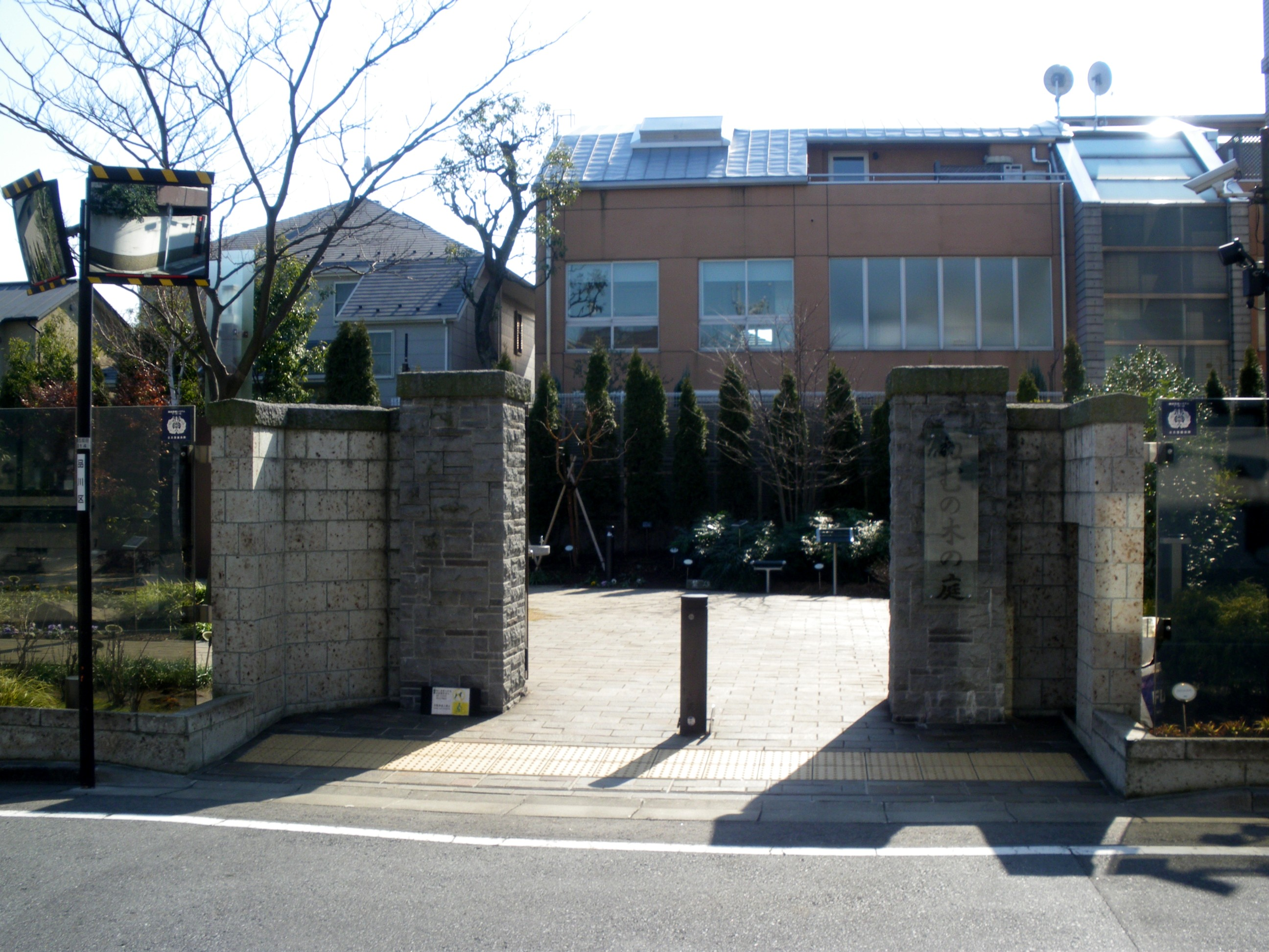 Nemunoki no Niwa(Higashigotanda,Shinagawa,Tokyo)